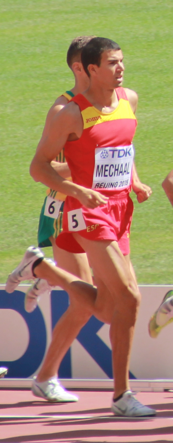 Adel Mechaal